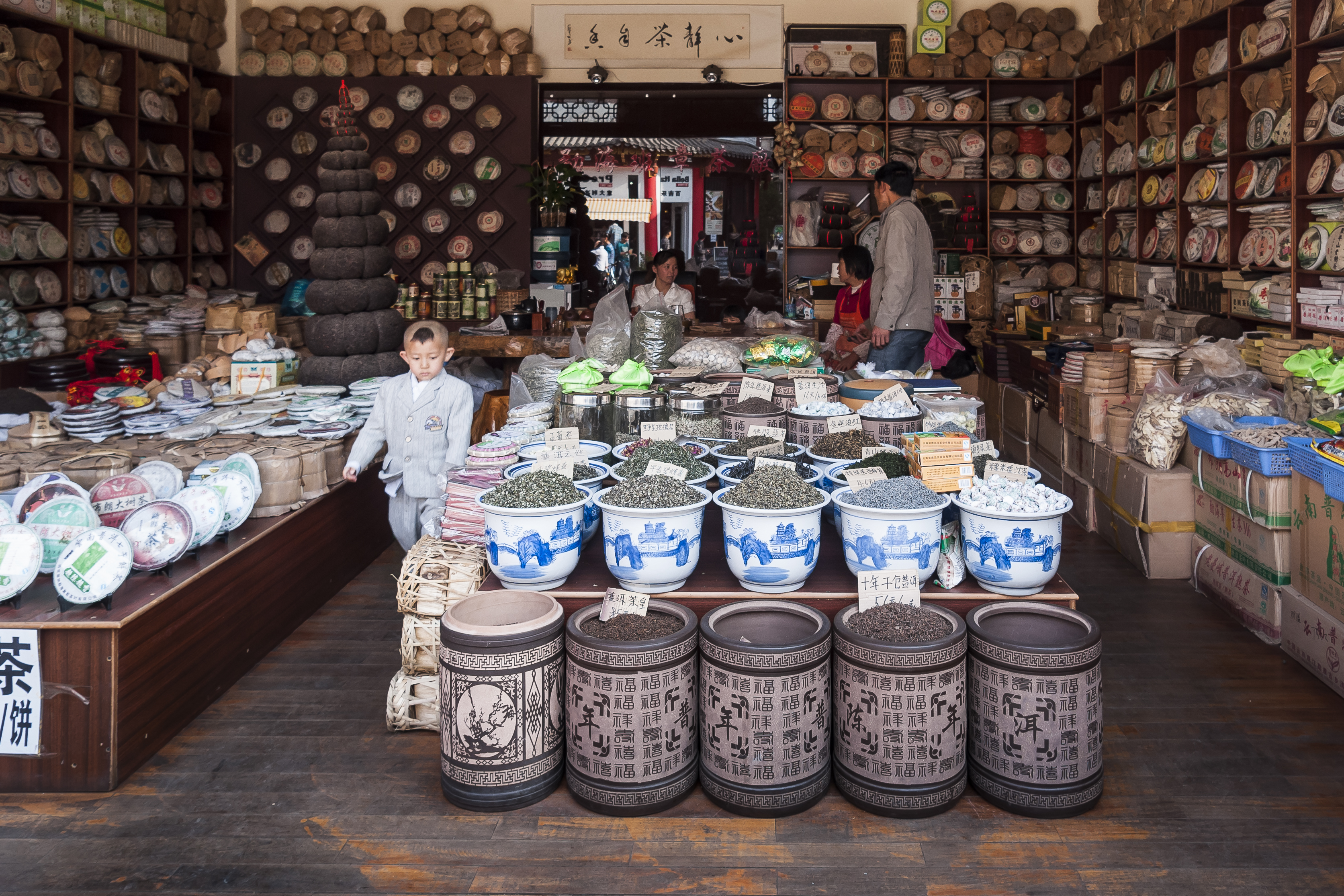 Kunming, Yunnan, China: Tea Shop near East Temple Pagoda.